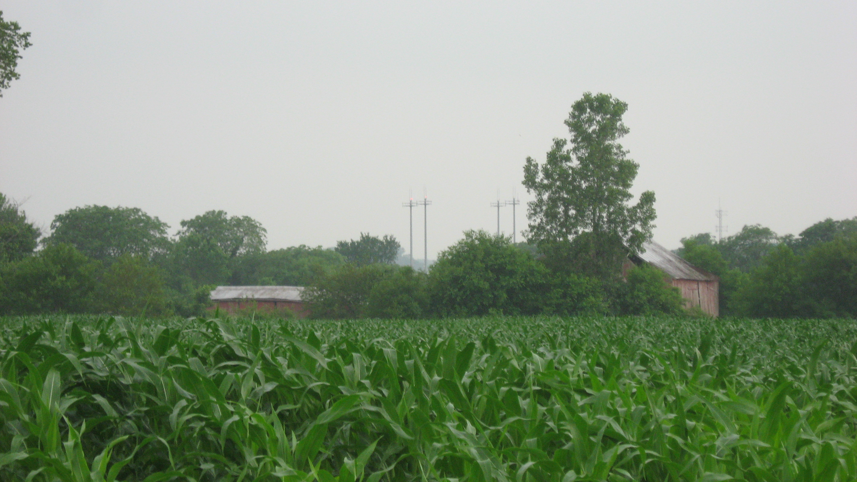 Roadside view of buildings on the Marquart-Mercer Farm, located at 743 Sparrow Road south of Springfield in Mad River Township, Clark County, Ohio, United States. The farm's three buildings are listed on the National Register of Historic Places.